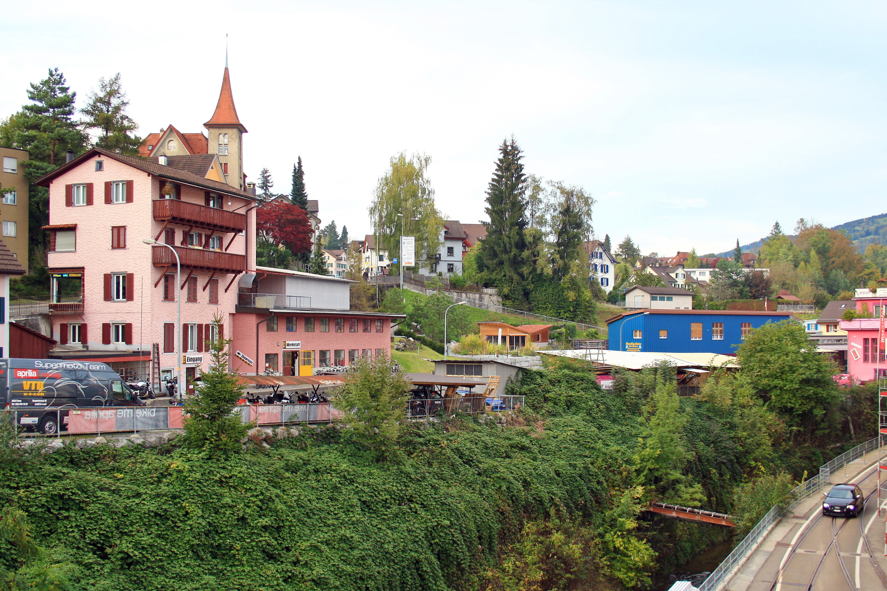 Tann and Jona river at Joweid (= meadows on Jona river) in Rüti (ZH)